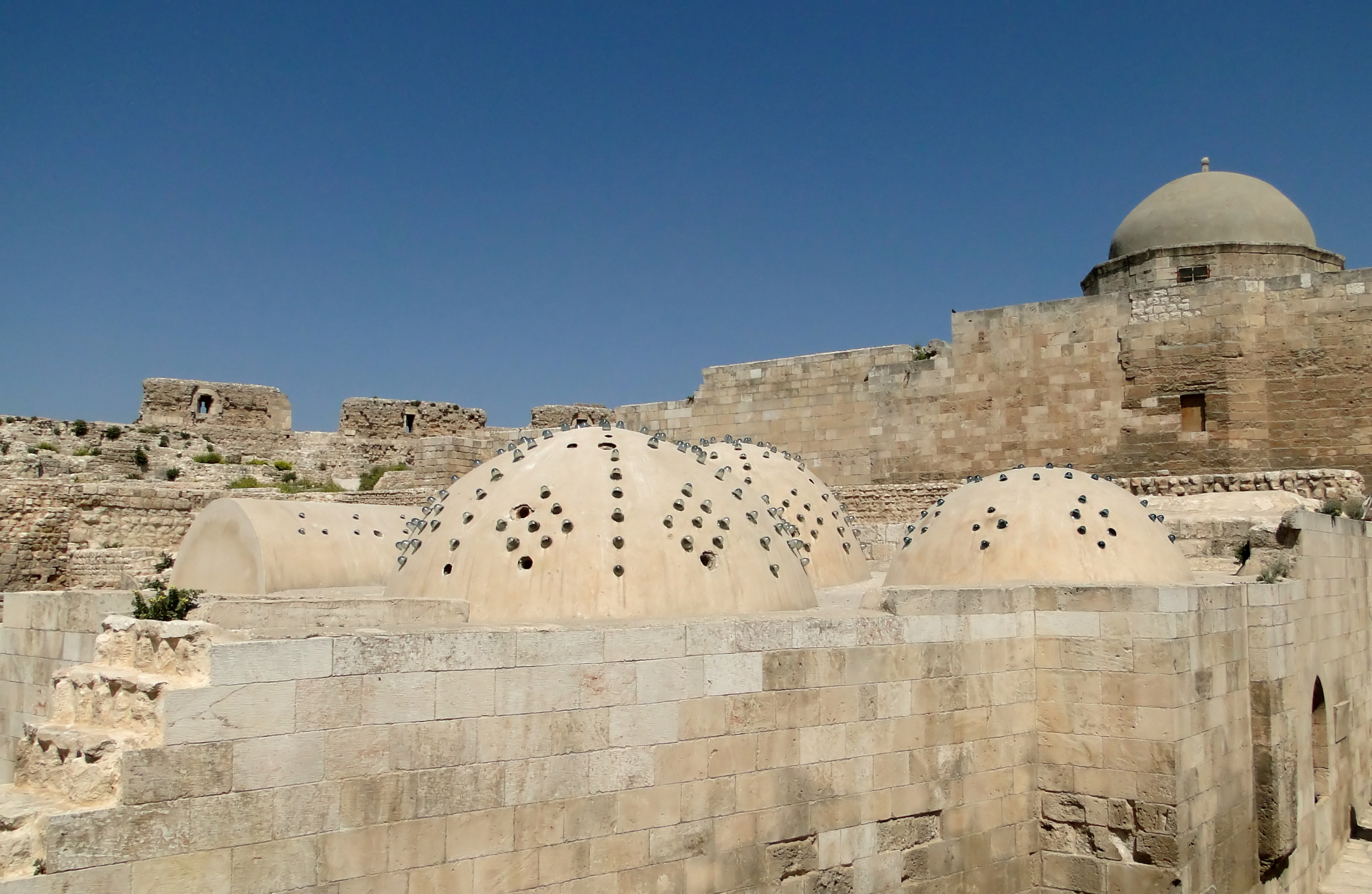 Domes of the hammam of the Citadel of Aleppo, Syria